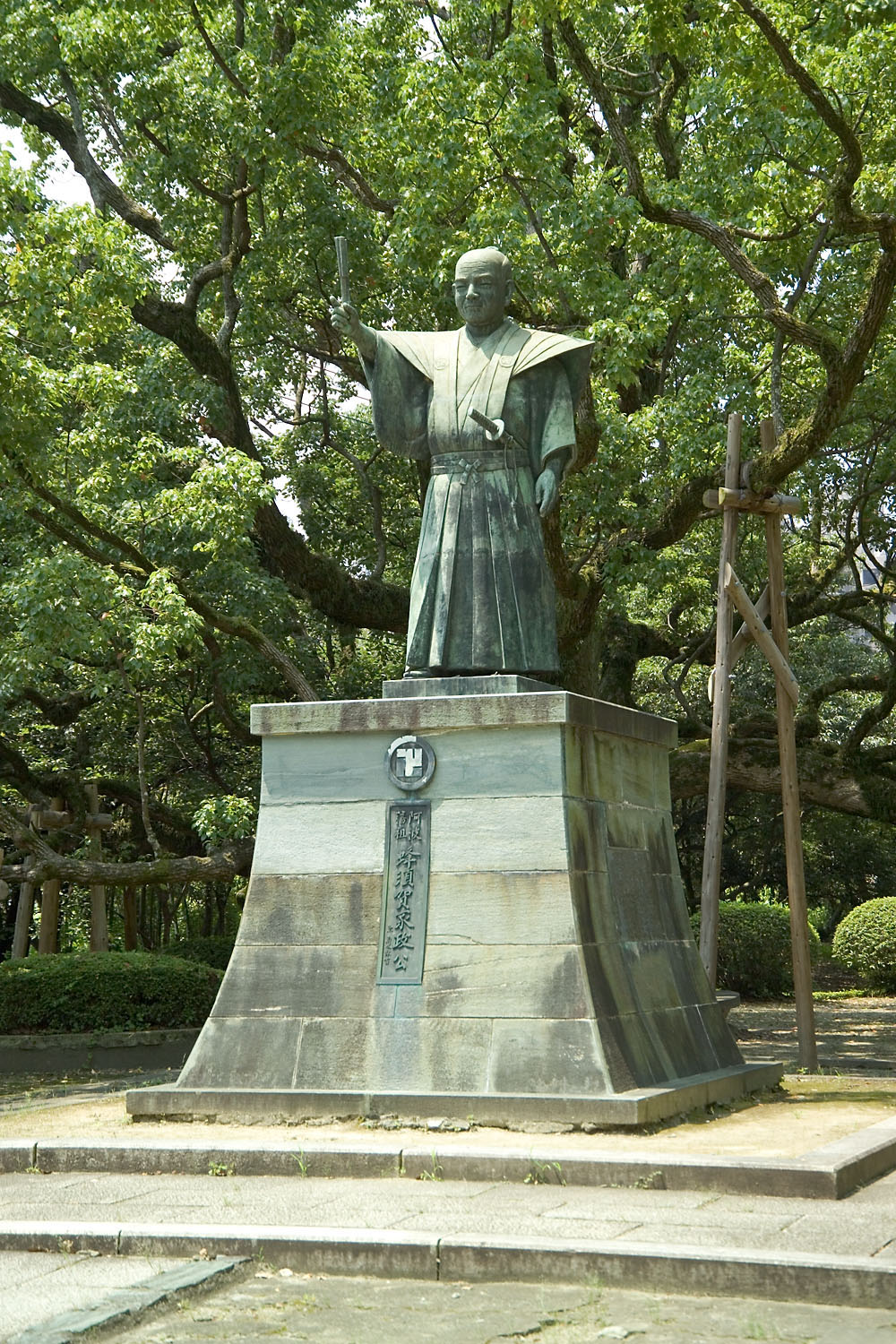 Statue of Hachisuka Iemasa, daimyo who founded the han at Tokushima (Awa Province), Tokushima Prefecture, Japan. I took the photo and contribute my rights in it to the public domain.